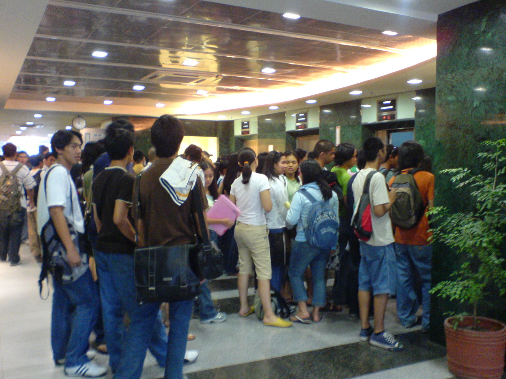 The ground floor of the Br. Andrew Hall during "rush hour". Self-taken